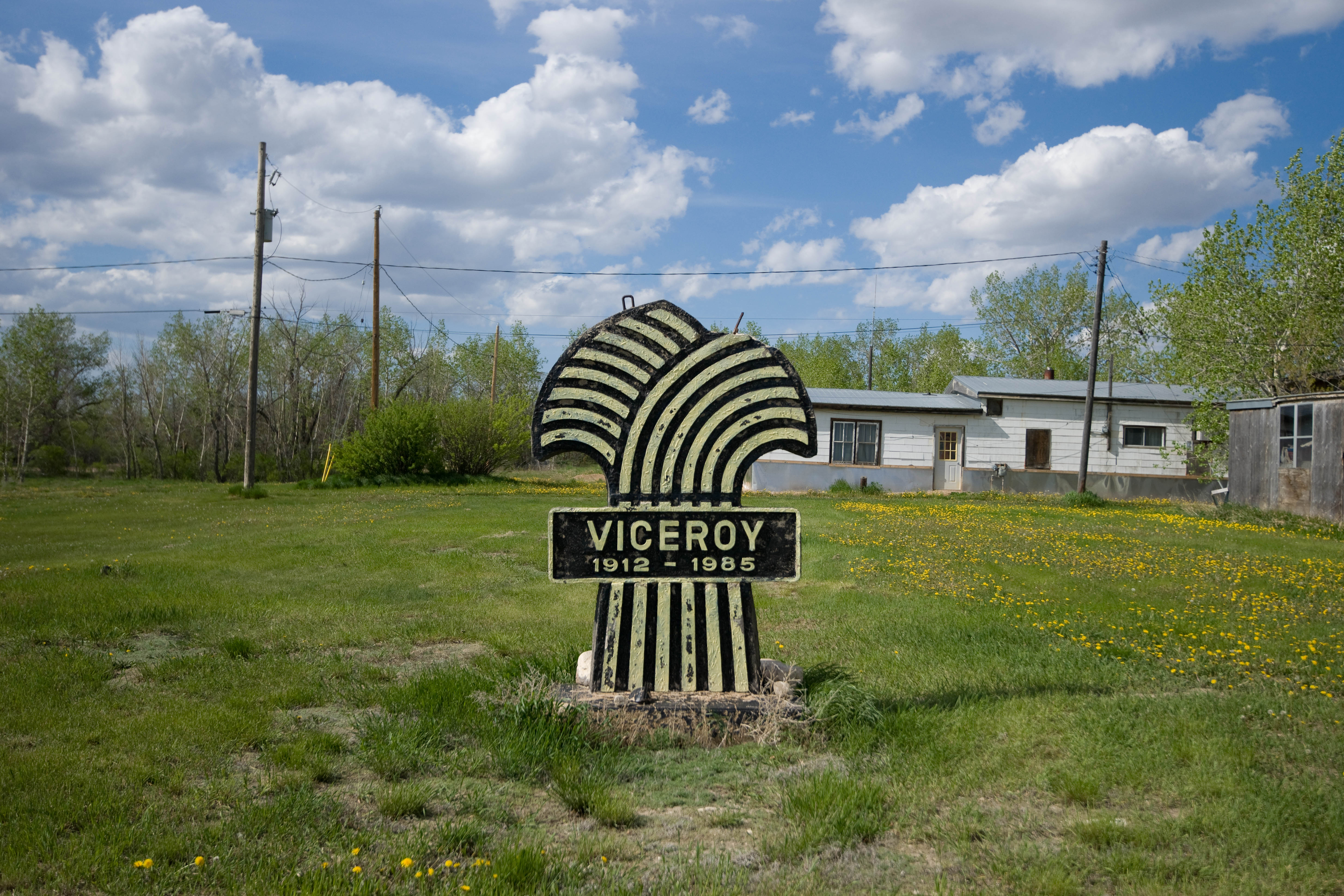 Wheat sheaf sign in Viceroy, Saskatchewan. From